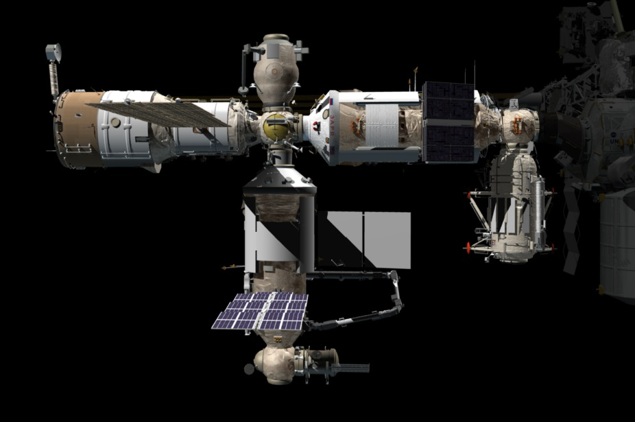 Screencap from NASA 3D model. I removed the USOS radiators in order to get a better view of ROS. No visiting vehicles are shown in this image.